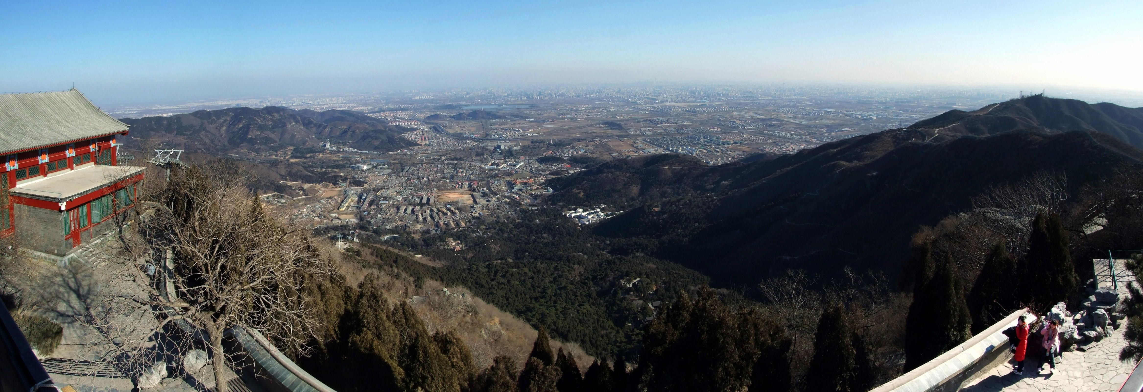 The peak of Xiangshan Mountain, Beijing. 中文（中国大陆）: 香山顶峰眺望北京